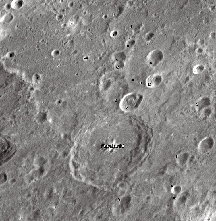 Piccolomini lunar crater as seen from Earth with satellite craters labeled